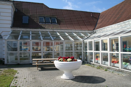 The library in Løkken, Denmark